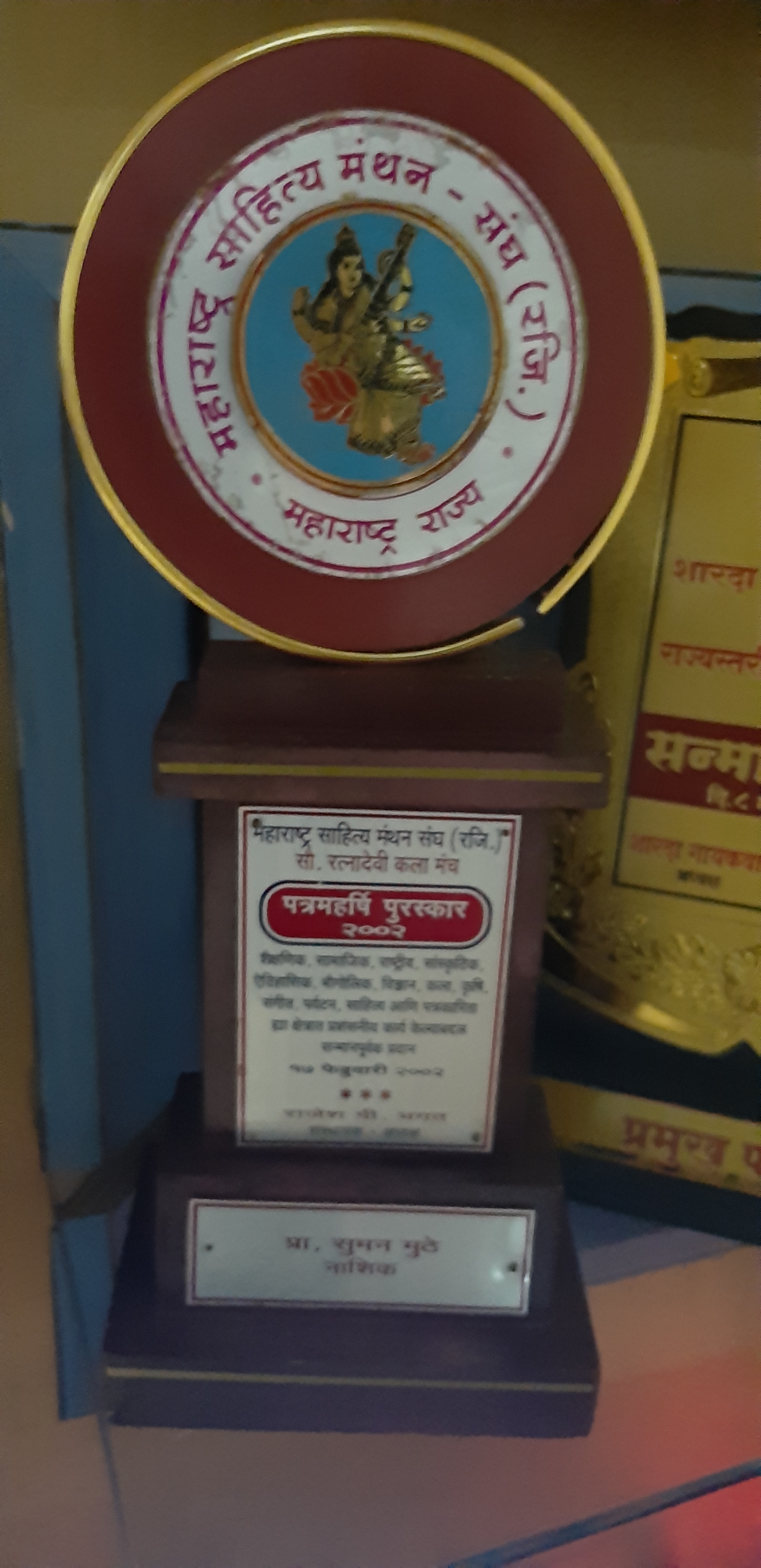 Award